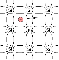 A sketch showing position of a donor in Silicon crystal lattice in 2D